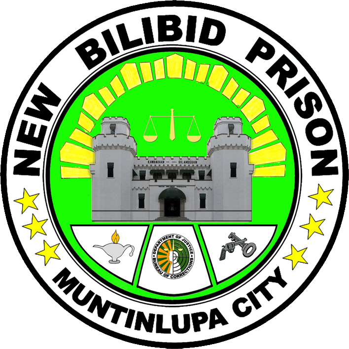 Seal of the New Bilibid Prison